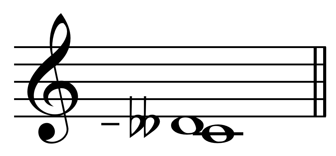 Diesis on C = D- (Ben Johnston's notation). 128:125 = 41.06 cents. Limit: 5-limit.